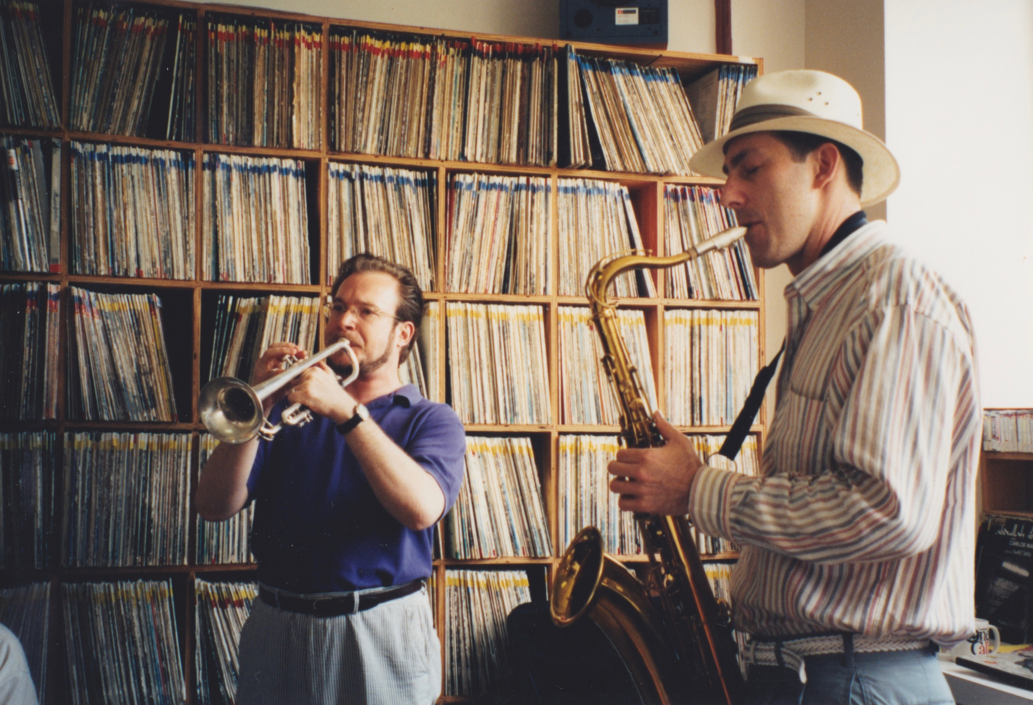 Jon-Erik Kellso, trumpet, and Dan Levinson, saxophone, at WWOZ radio studio in Armstrong Park, New Orleans, 1995. Photo by Infrogmation